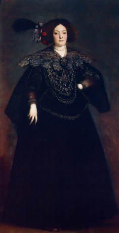 Portrait of Emilia Papafava Borromeo